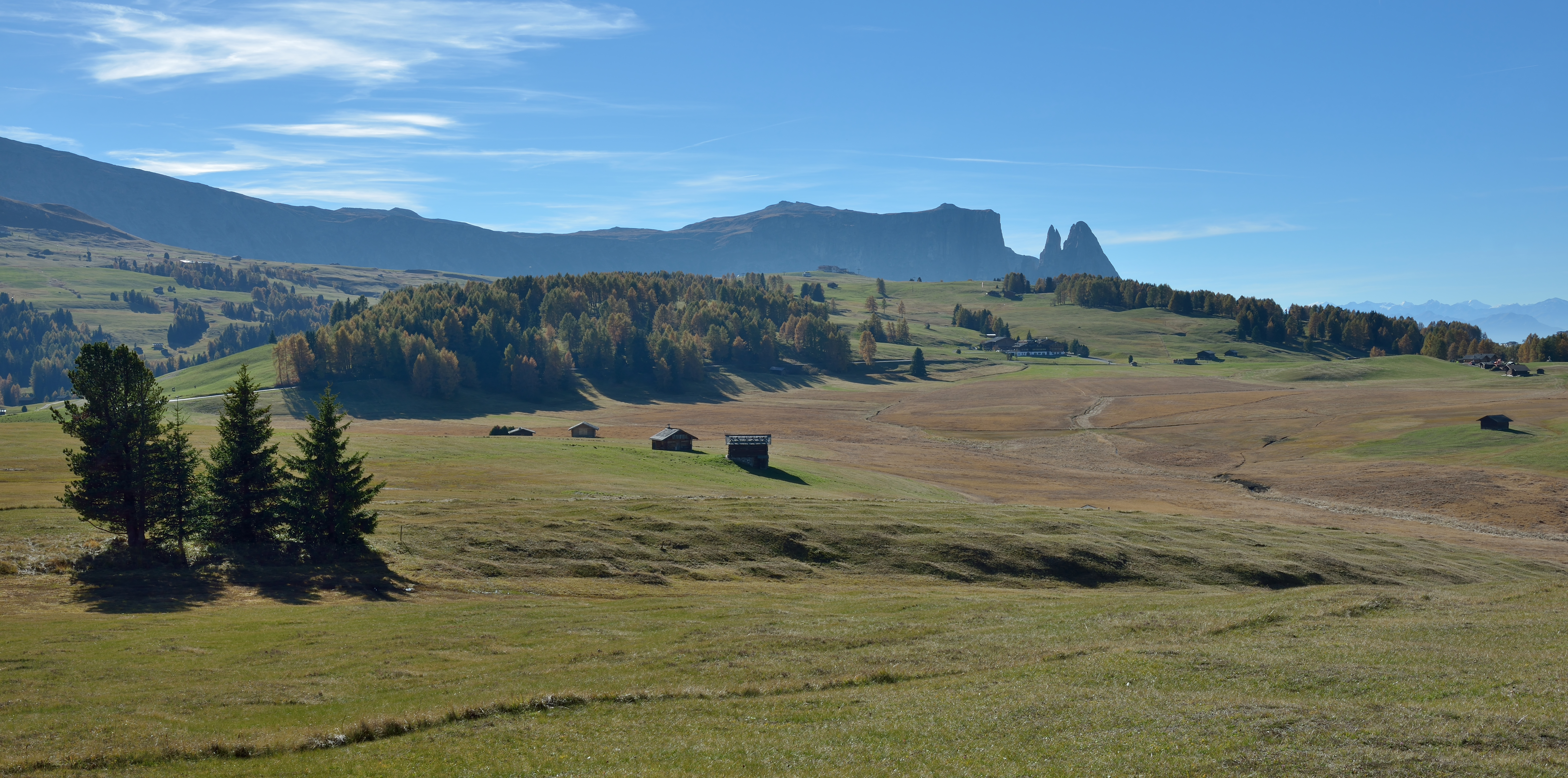 The Seiser Alm in South Tyrol, with the Schlern mountain in the background